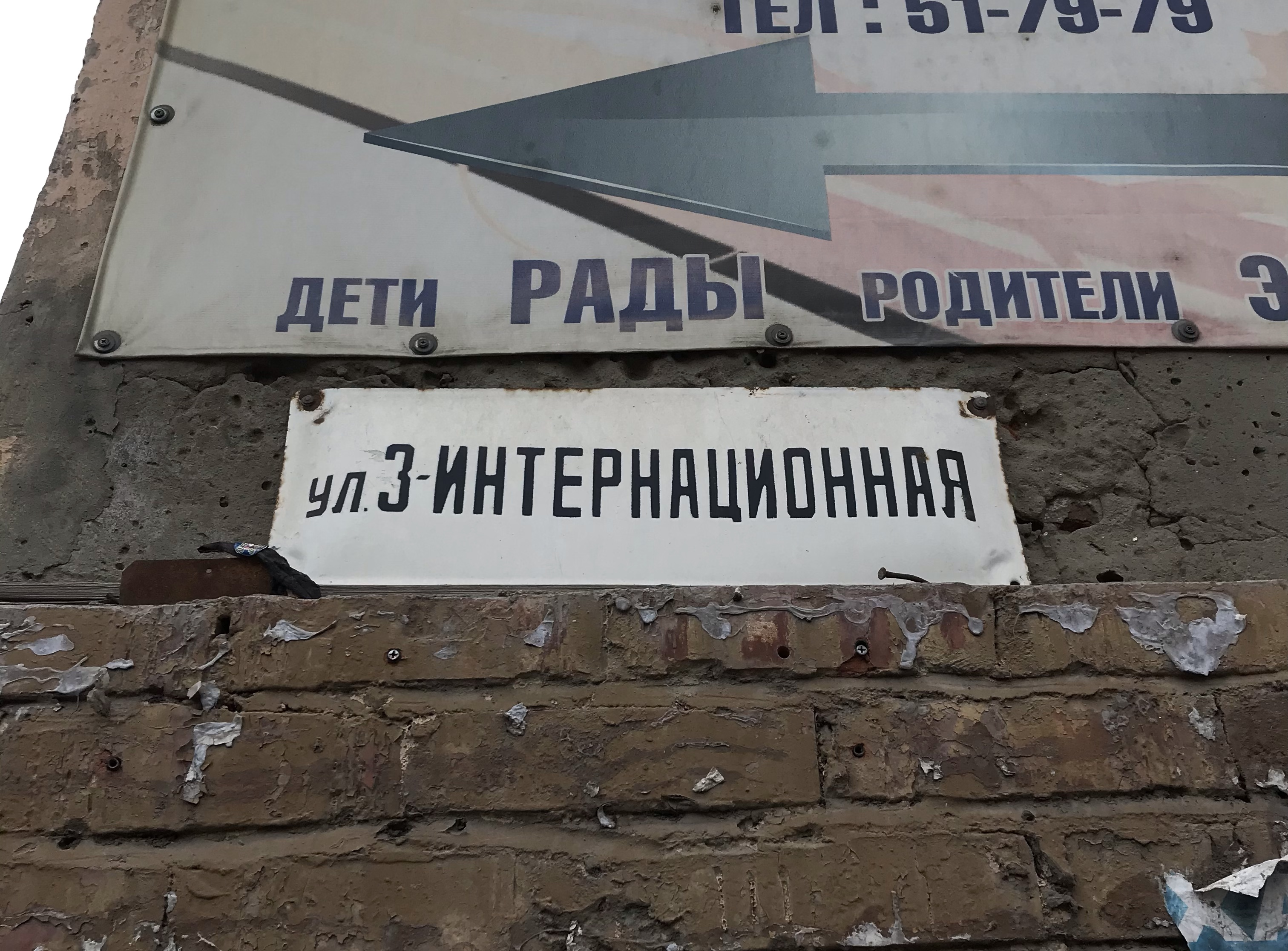 A street sign with a grammatical mistake in Astrakhan